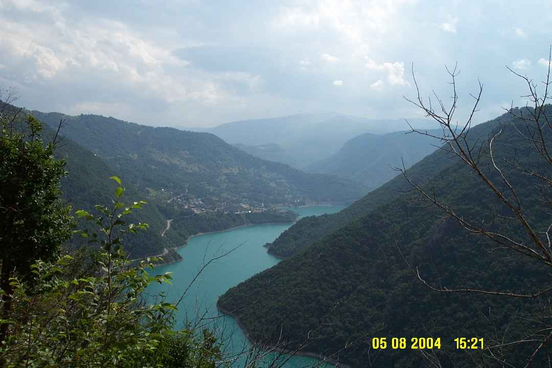 The Mratinje dam lake in Montenegro